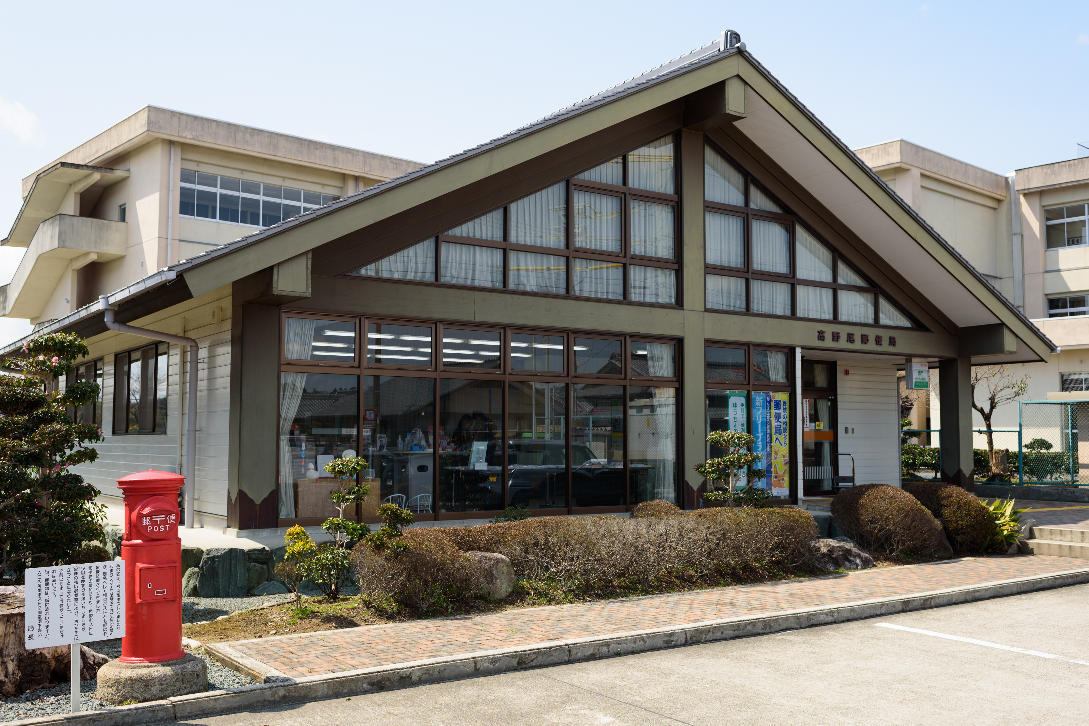 Takanoo Post Office, Tsu, Mie, Japan